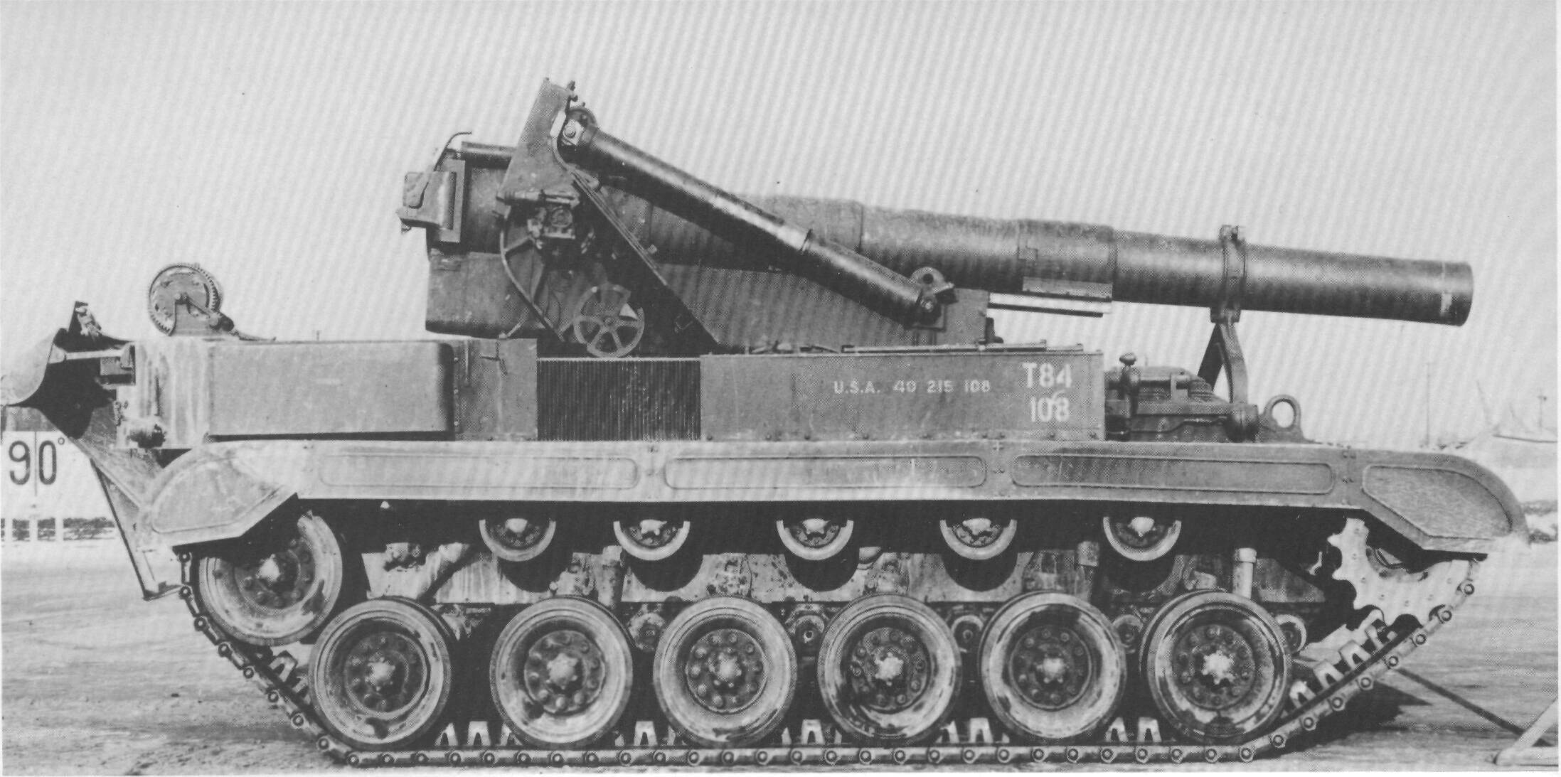 T84 8 inch Howitzer first pilot at Aberdeen Proving Ground